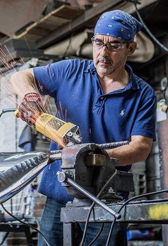 Workshop